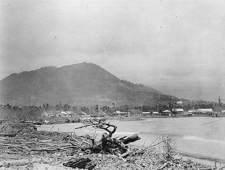 View looking to the southward from the eastern side of Apia Harbor, Upolu, Samoa, showing driftwood and debris that lined the beach immediately after the storm. The sunken wreck of USS Vandalia is visible at the far right edge of the photograph. Original caption: “Photo # NH 42292 Driftwood and debris at Apia, Samoa, following the hurricane, March 1889”